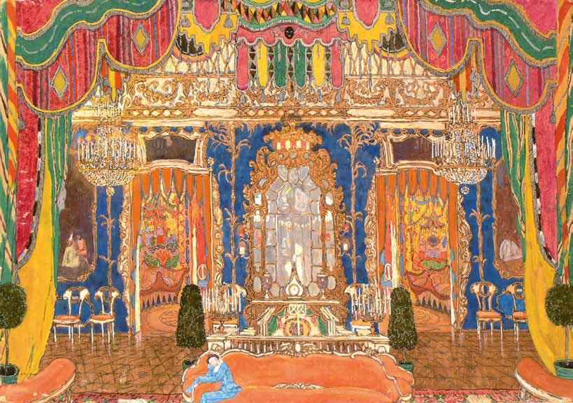 Alexander Yakovlevich Golovin: Masquerade ballroom, scene from Lermontov's Masquerade, 1917